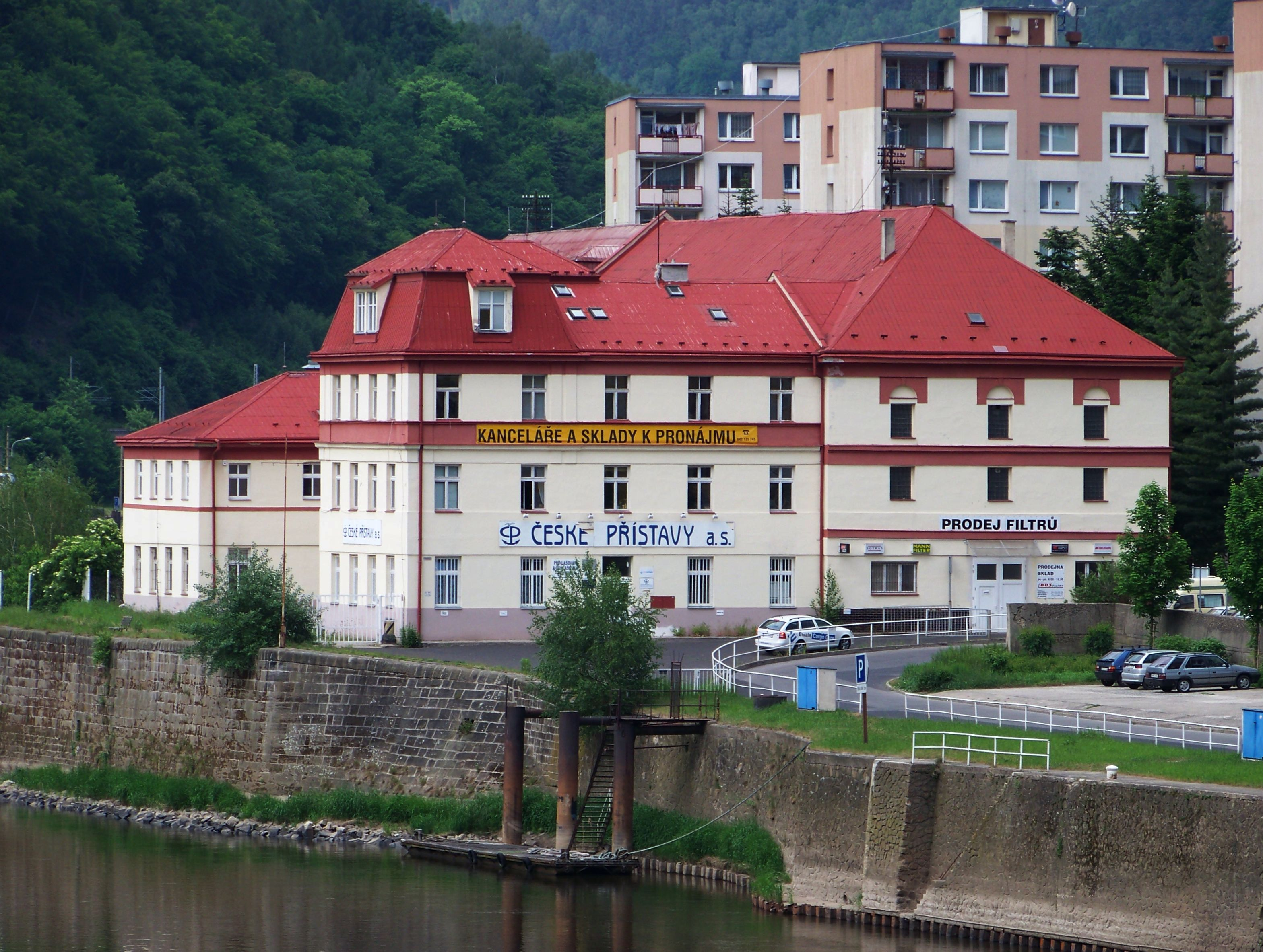 Děčín I-Děčín, Děčín District, Ústí nad Labem Region, the Czech Republic. Elbe river, Labská street, České přístavy (Czech Ports) building.